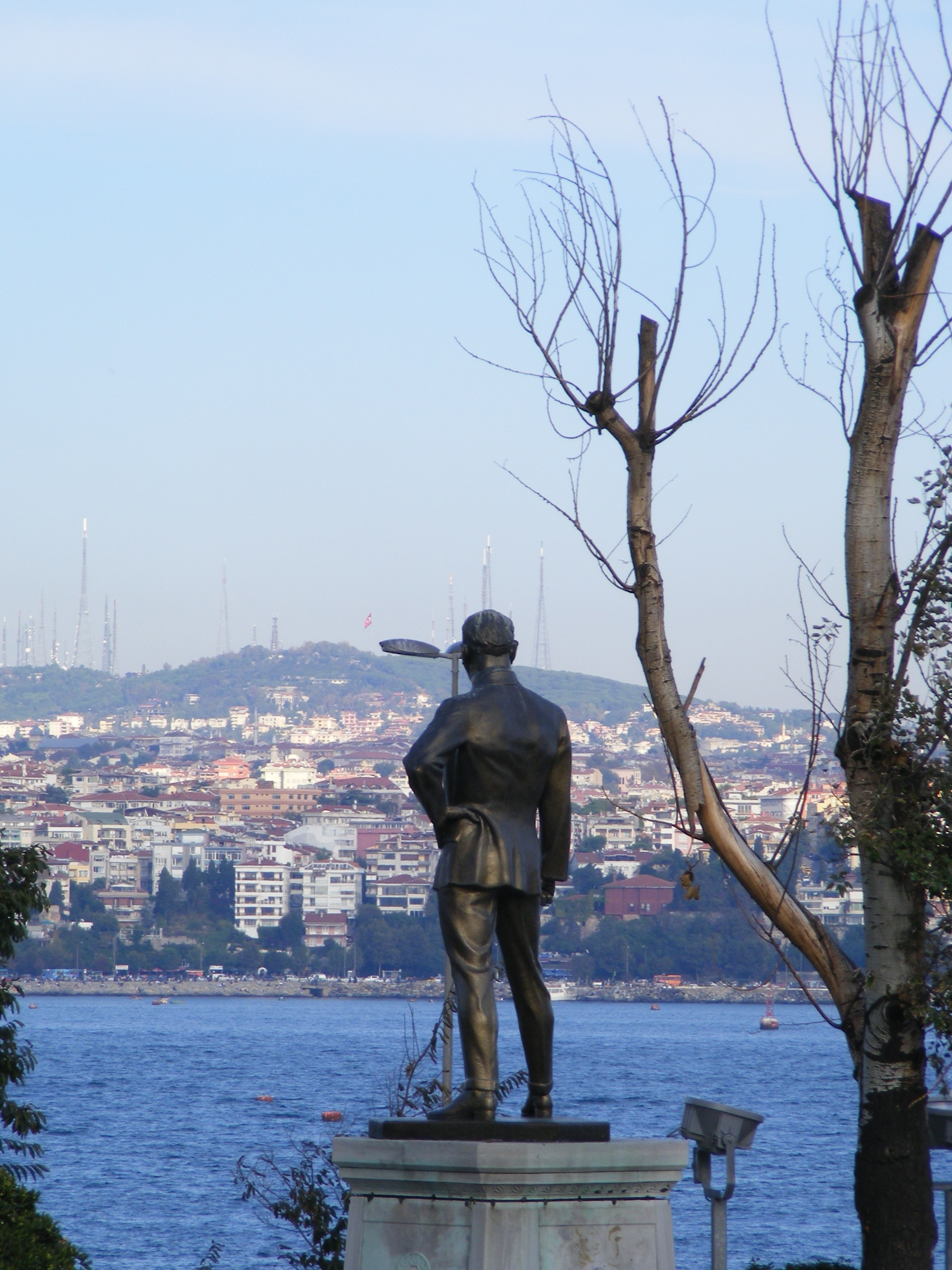 Atatürk's statue over looking the Bosphorous